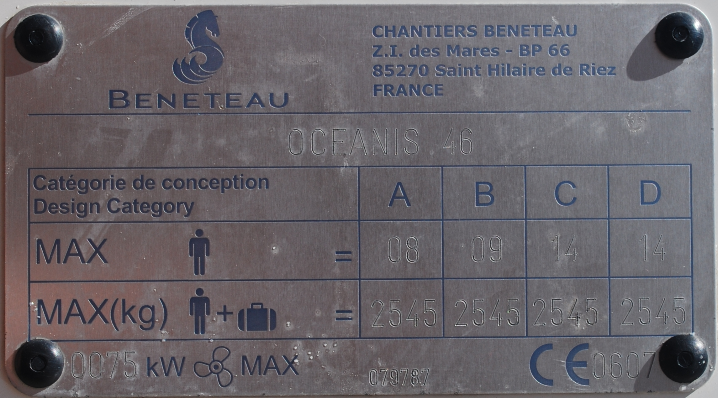 Design category sticker on a Beneteau Oceanis 46 sailing yacht